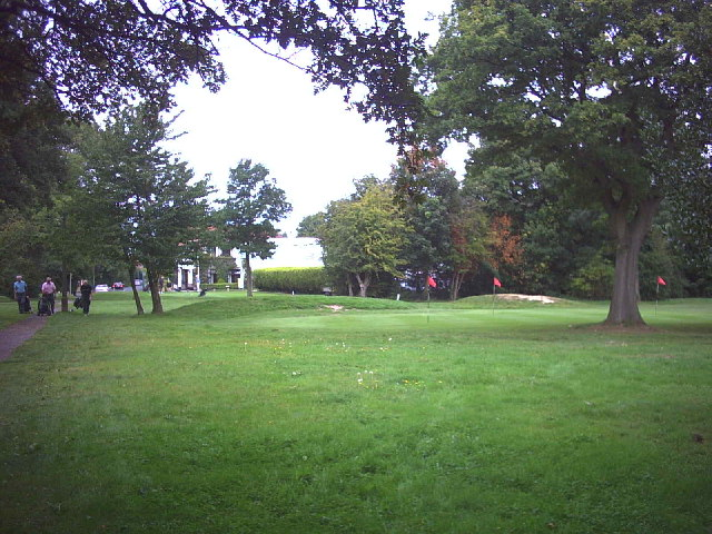 Banstead Downs golf course. The club house is the white building in the background.